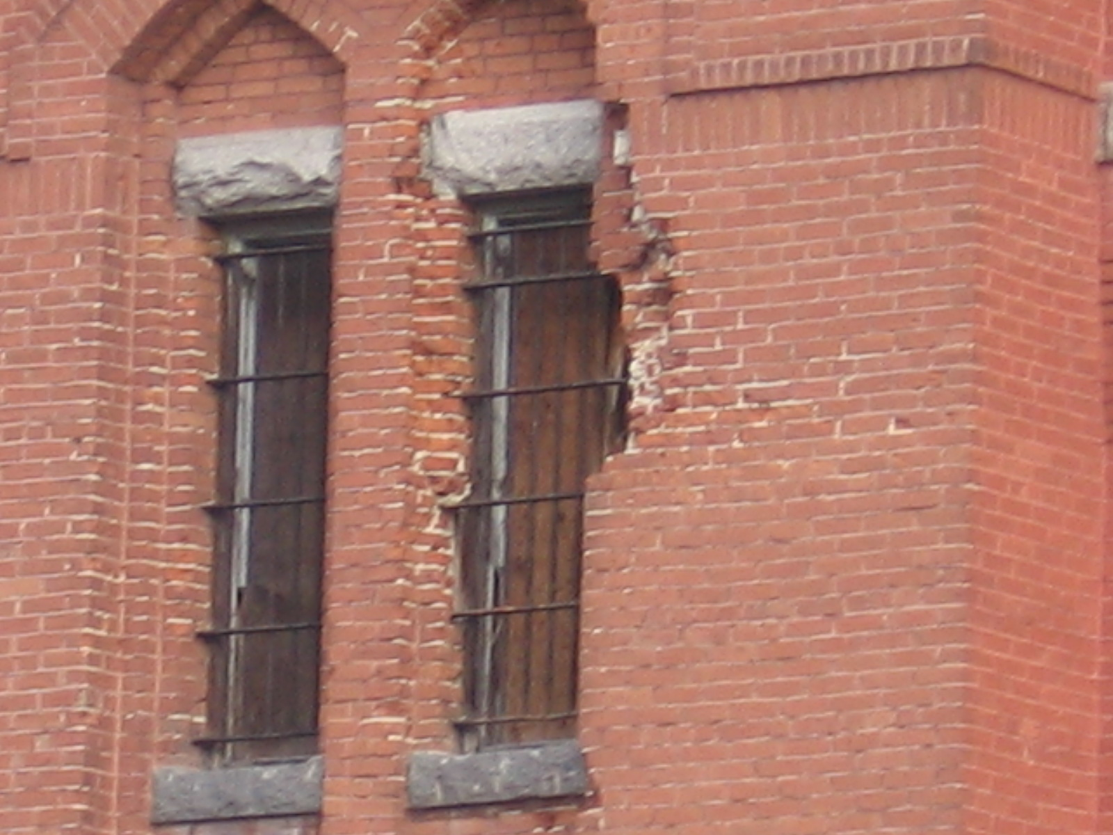 A view of the damage two bazooka blasts to the southwest tower of Cellblock 1 of the Old Montana Prison as a result of the 1959 riot